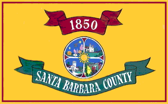 The official flag of Santa Barbara County — in Southern California.